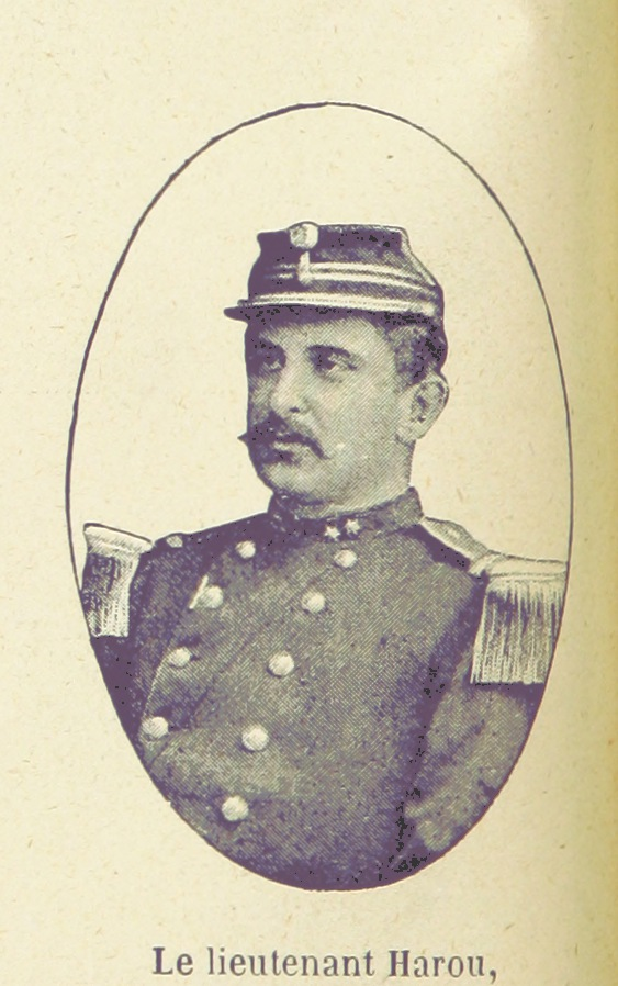 Image taken from: Title: "Le Congo en images, raconté aux enfants. Histoire, habitants, mœurs, civilisation, portraits des explorateurs, etc", "Appendix" Shelfmark: "British Library HMNTS 10094.e.2." Page: 42 Place of Publishing: Bruxelles Date of Publishing: 1896 Issuance: monographic Identifier: 000762128 Explore: Find this item in the British Library catalogue, 'Explore'. Download the PDF for this book (volume: 0) Image found on book scan 42 (NB not necessarily a page number) Download the OCR-derived text for this volume: (plain text) or (json) Click here to see all the illustrations in this book and click here to browse other illustrations published in books in the same year. Order a higher quality version from here. This file is from the Mechanical Curator collection, a set of over 1 million images scanned from out-of-copyright books and released to Flickr Commons by the British Library. Please add the Flickr page URL for the image Please add the British Library system number for the book This tag does not indicate the copyright status of the attached work. A normal copyright tag is still required. See Commons:Licensing.